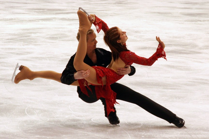 Emily Samuelson & Evan Bates perform a curve lift during their free dance at the 2009 World Figure Skating Championships.